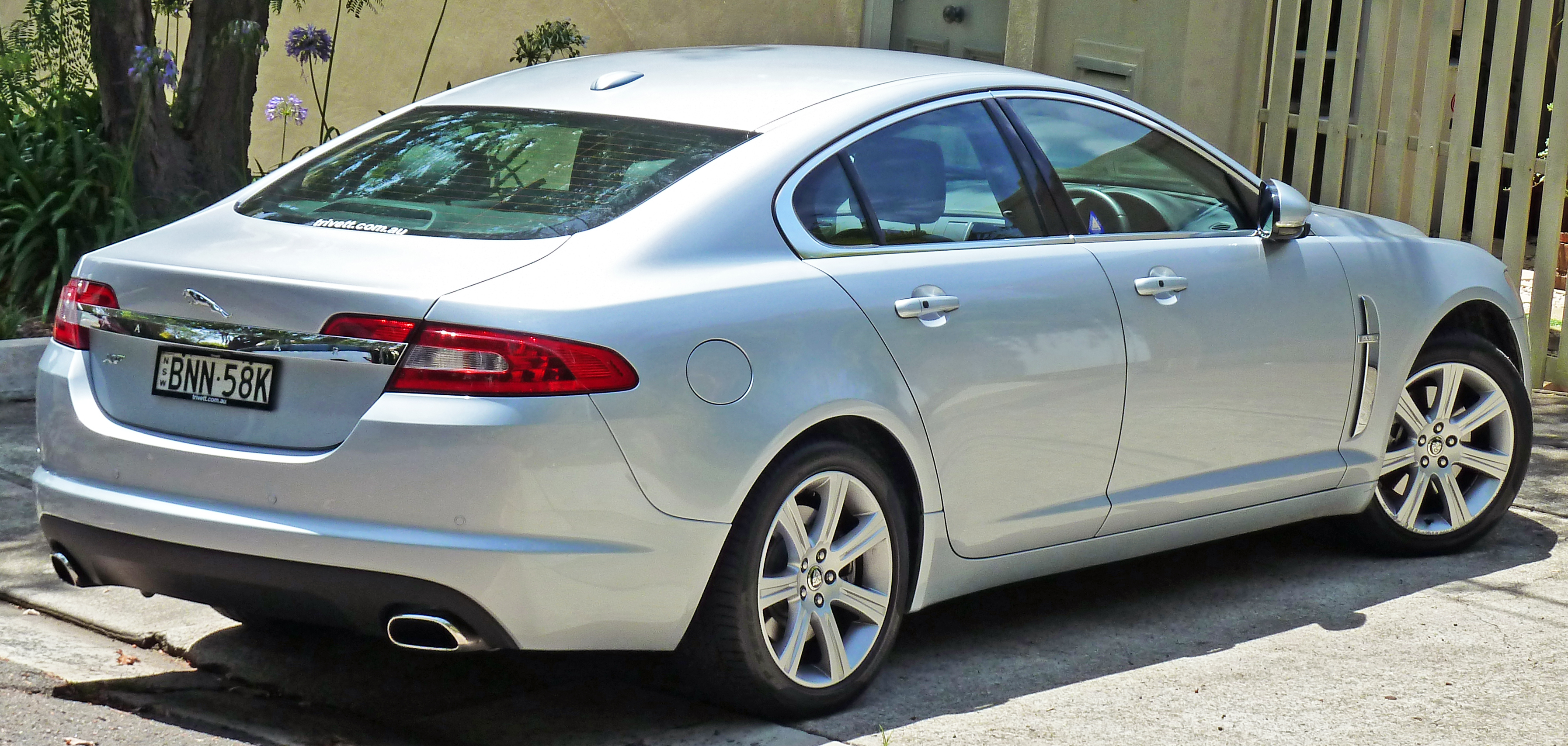 2009–2010 Jaguar XF (X250 MY10) Luxury sedan. Photographed in Vaucluse, New South Wales, Australia.